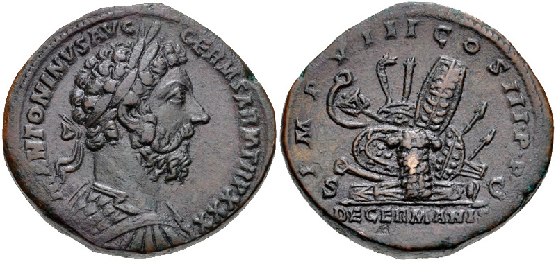 Marcus Aurelius. AD 161-180. Æ Sestertius (31mm, 28.62 g, 12h). Rome mint. Struck AD 177. M ANTONINVS AVG GERM SARM TR P XXXI, laureate, draped, and cuirassed bust right IMP VIII COS III · P · P ·, pile of arms; DE GERMANIS in exergue. RIC III 1184 var. (bust neither draped nor cuirassed); MIR 18, 370-6/37; Banti 64. Near EF, green-brown patina. Exceptional reverse detail; rare. This reverse type commemorates the victories of Marcus Aurelius over the Germanic tribes along the Danube frontier in the early 170s AD. Unlike many emperors who took credit for the campaigns of their generals, in this campaign Marcus personally led his legions. Aurelius also wrote his famous "Meditations" during this time along the frontier.